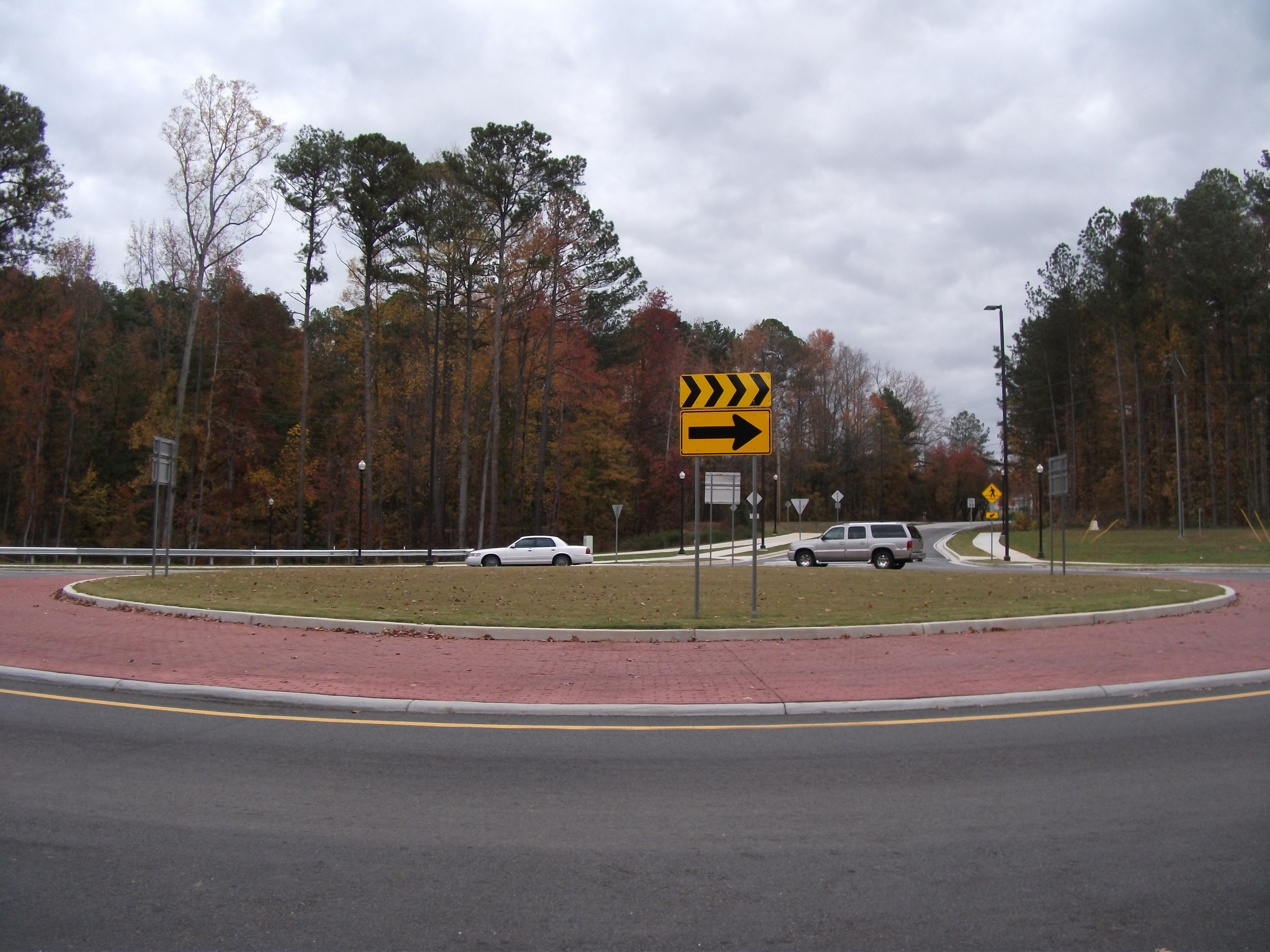 Traffic circle in Covington, Georgia